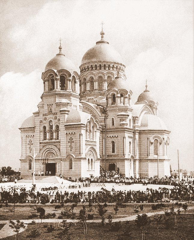 Blessing of the Ascension Military Cathedral in Novocherkassk, Russia. Photography. 1905. State Public Historical Library of Russia, Moscow